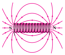 ֆիզիկա, մագնիսական դաշտի ինդուկցիայի գծեր